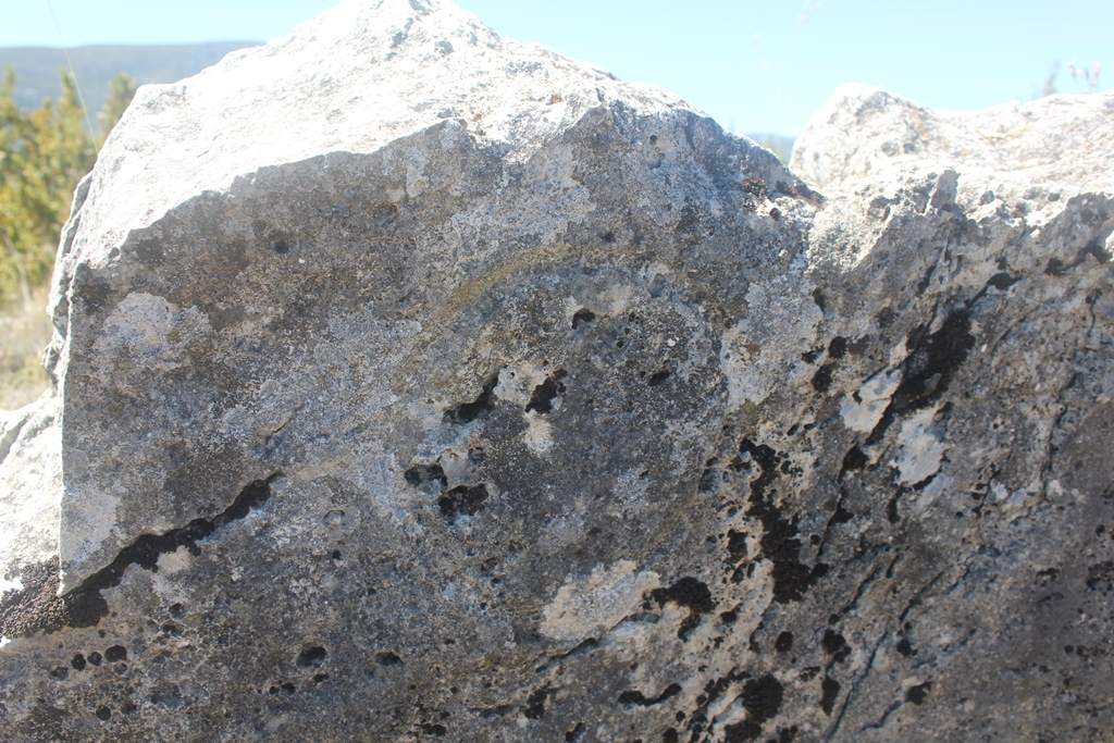 Dolmen de la Capilleta con círculo grabado